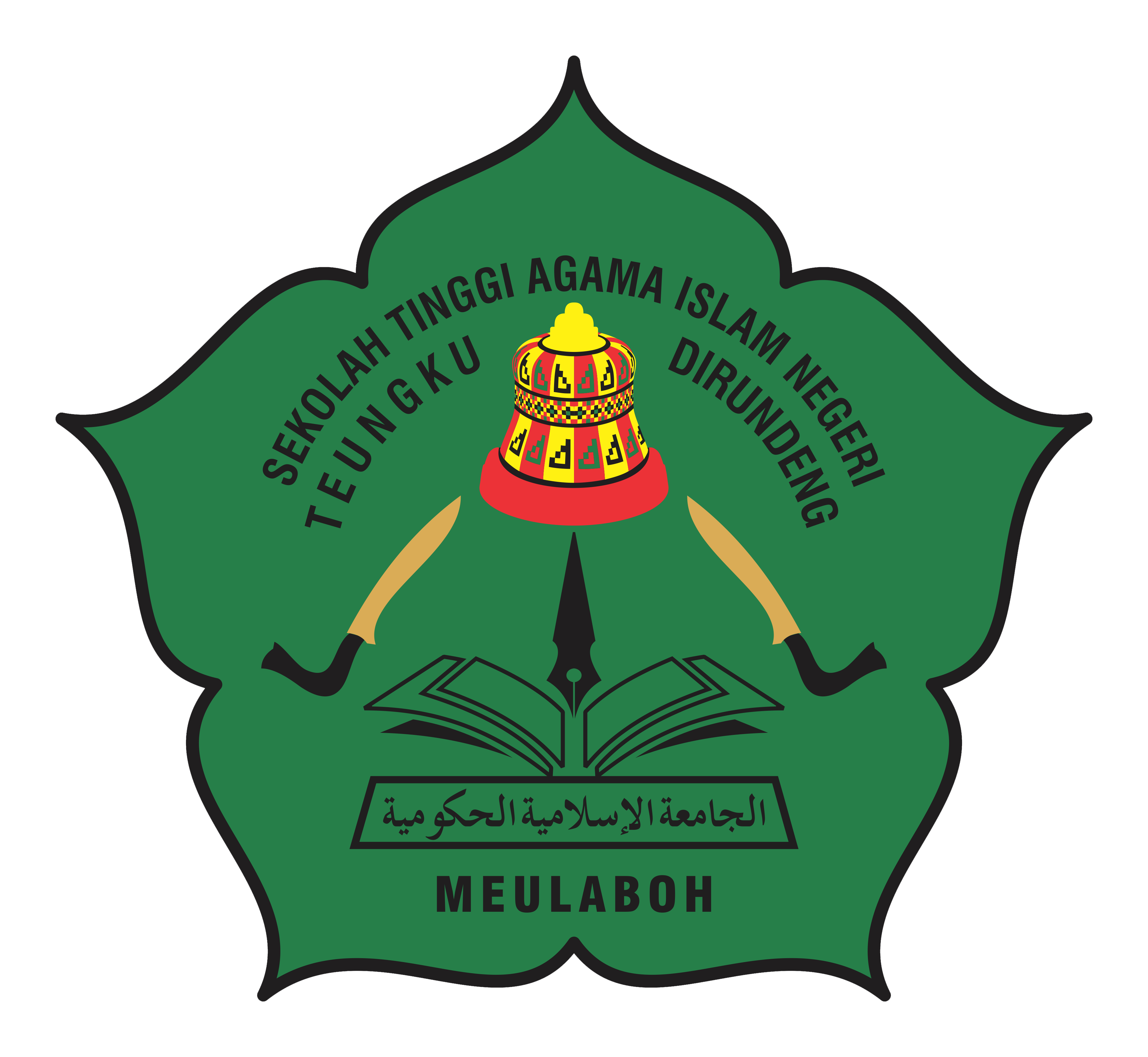 Logo of STAIN Teungku Dirundeng Meulaboh